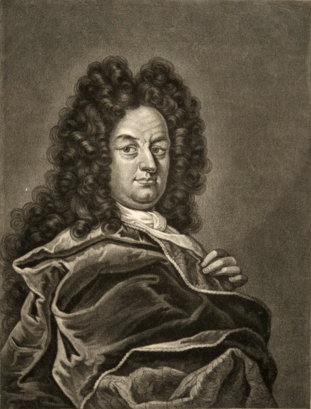 Count Carl Piper (1647–1716) by Peter Schenk the Elder.